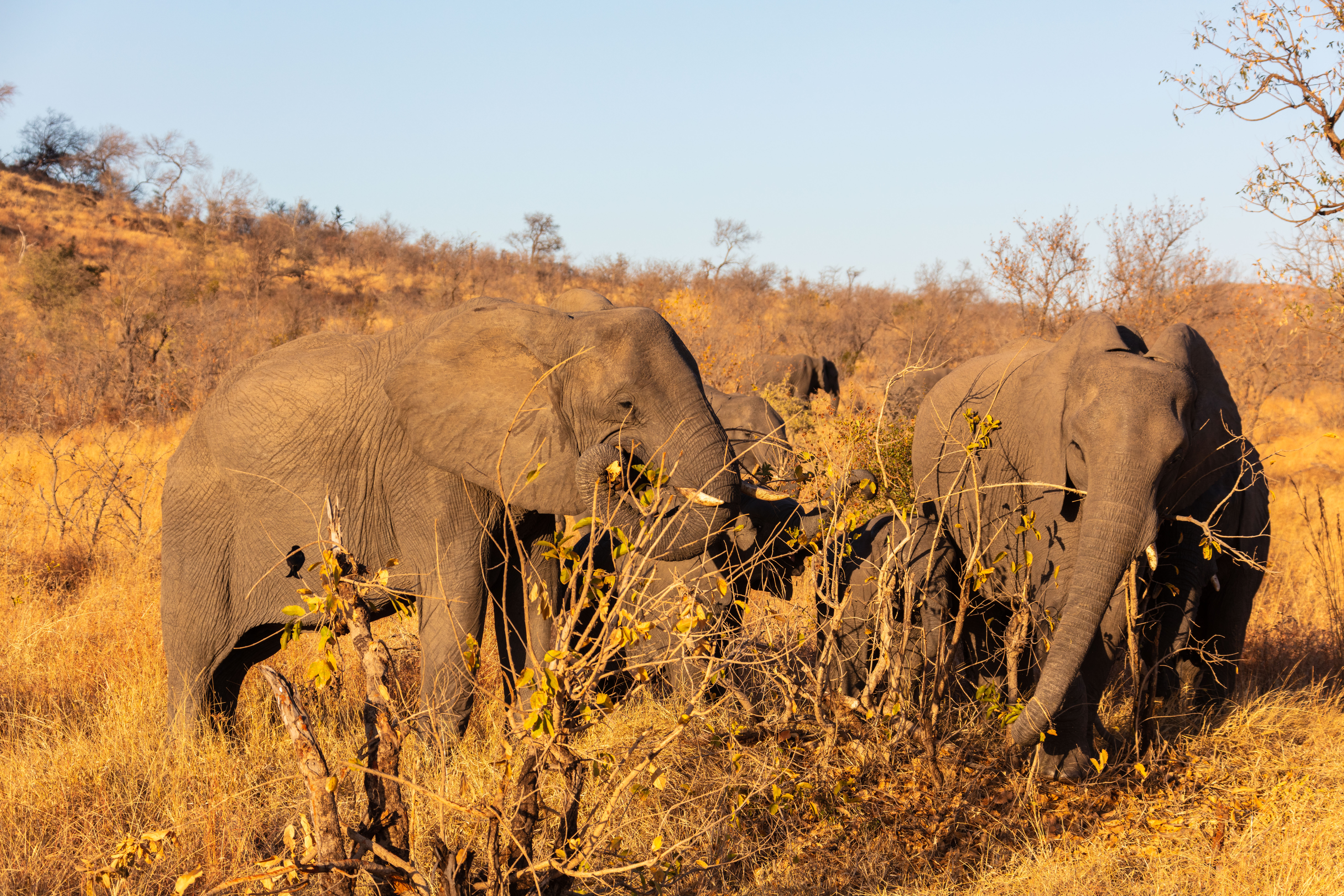 African bush elephants (Loxodonta africana), Kruger National Park, South Africa